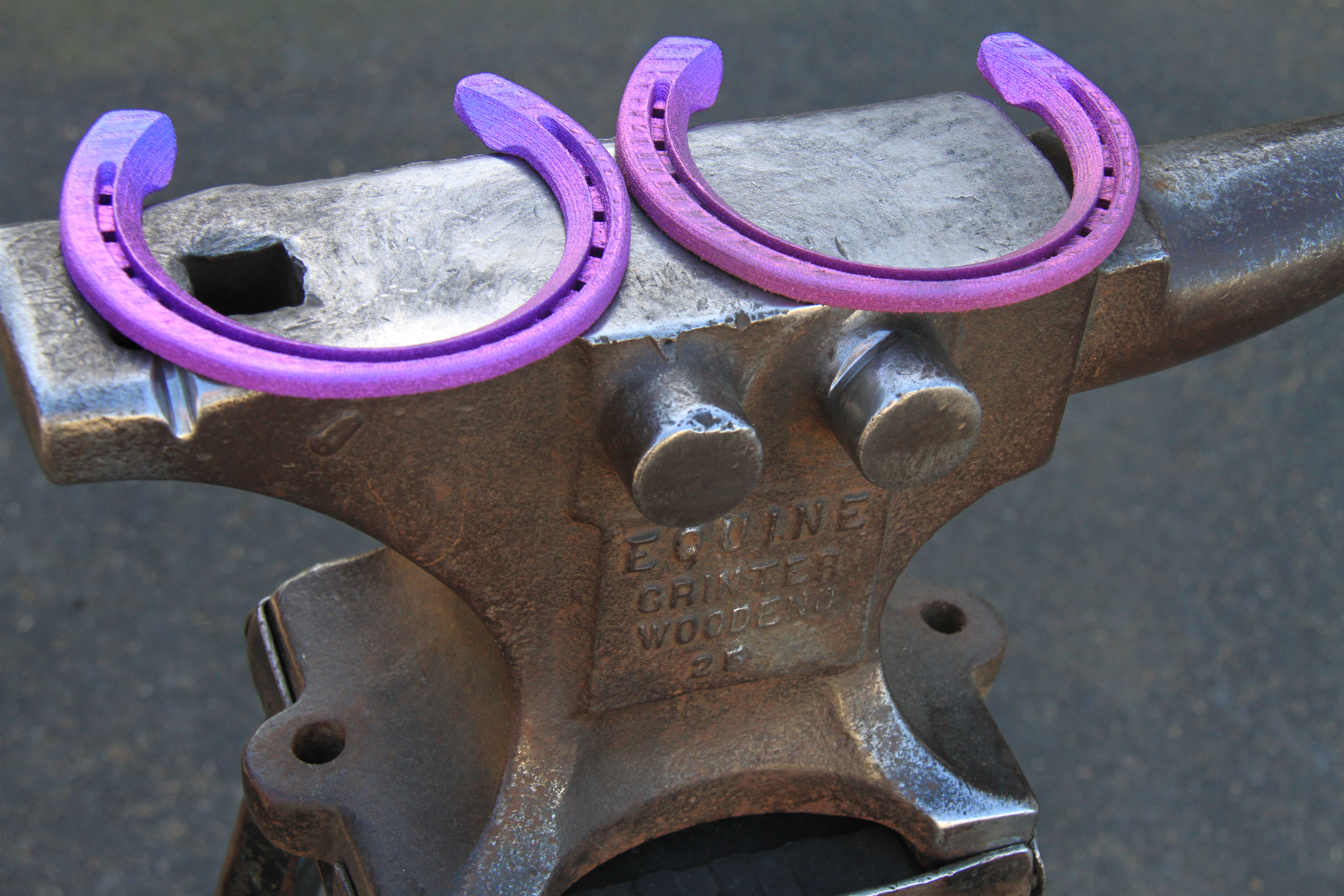 CSIRO scientists have custom made and 3D printed a set of titanium shoes for one Melbourne race horse in a first for the sport. The horse, dubbed by researchers as "Titanium Prints", had its hooves scanned with a handheld 3D scanner this week. Using 3D modelling software, the scan was used to design the perfect fitting, lightweight racing shoe and four customised shoes were printed within only a few hours.